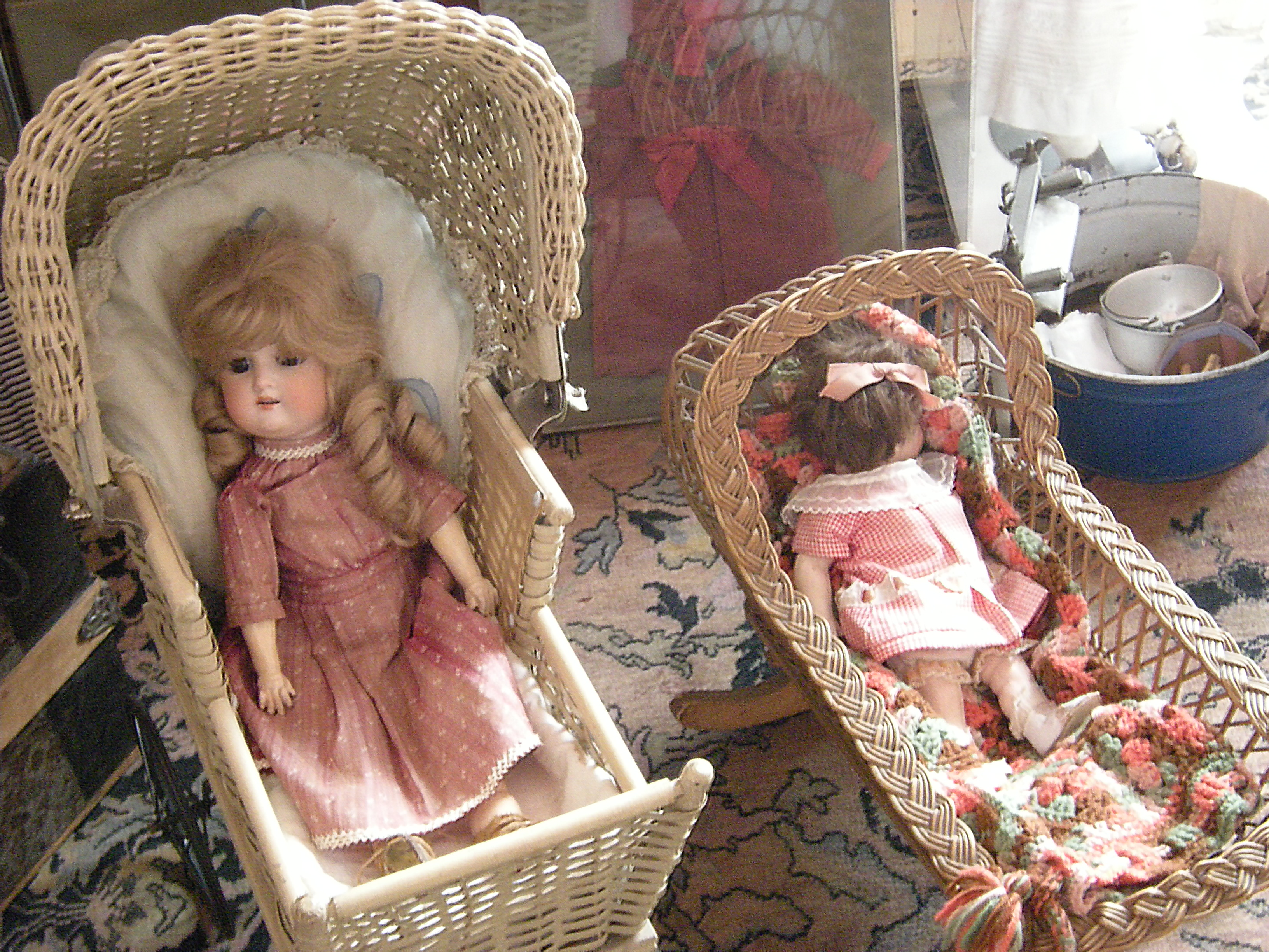 Dolls, Blackman House Museum, Snohomish, Washington, USA.